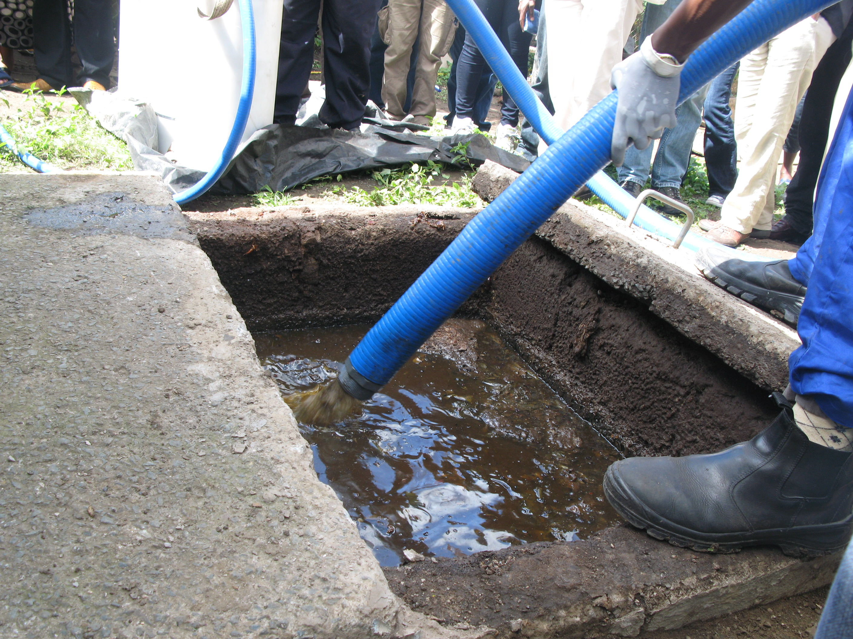 The pit is wider than the superstructure and has a concrete lid which enables emptying of the pit.